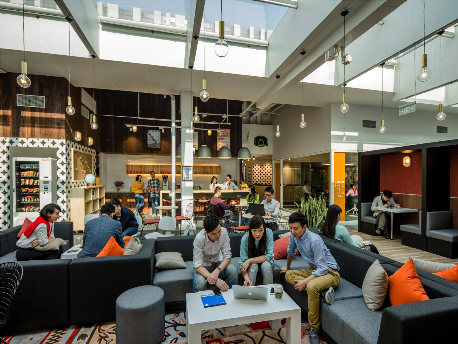 Fuxing SOHO 3Q is a coworking space in Shanghai operated by SOHO China.